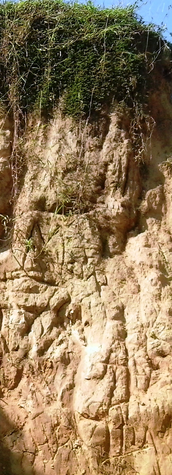 Lalmai pahar, maynamati, comilla